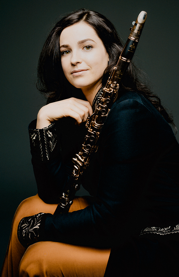 Annelien van Wauve, belgium clarinetist